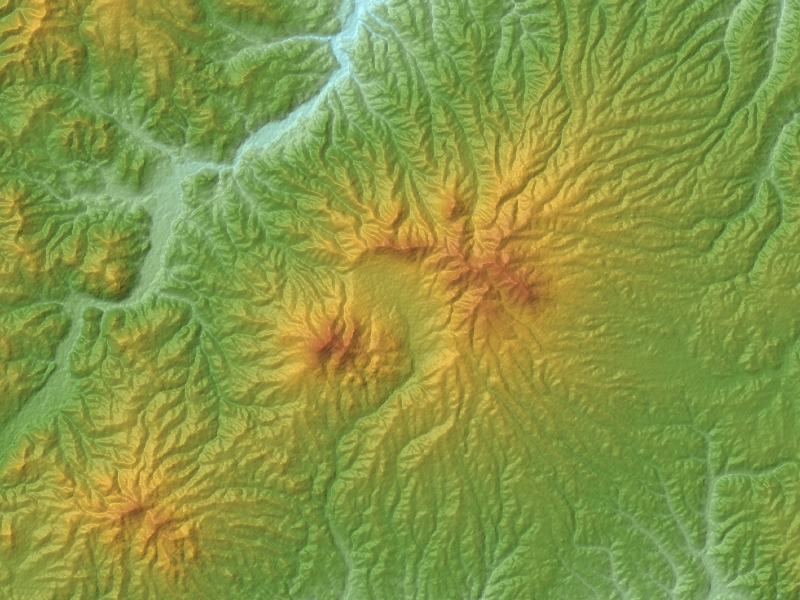 Nanashigure volcano in Iwate Prefecture, Honshu, Japan.